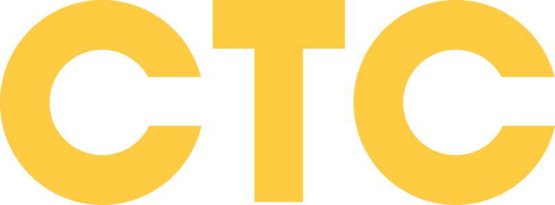 CTC (TV channel)